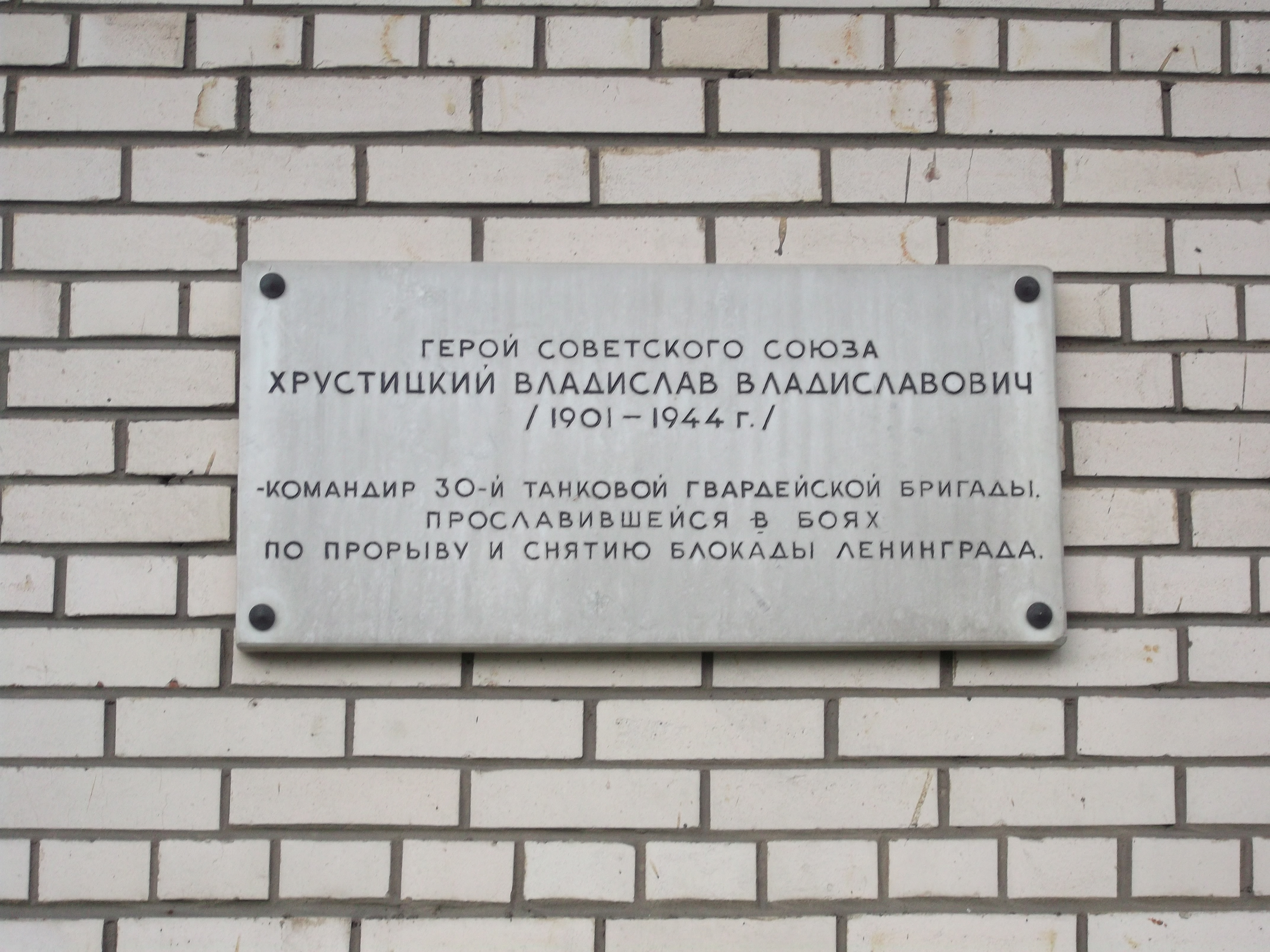 Tankista Khrustitskogo Street memory board